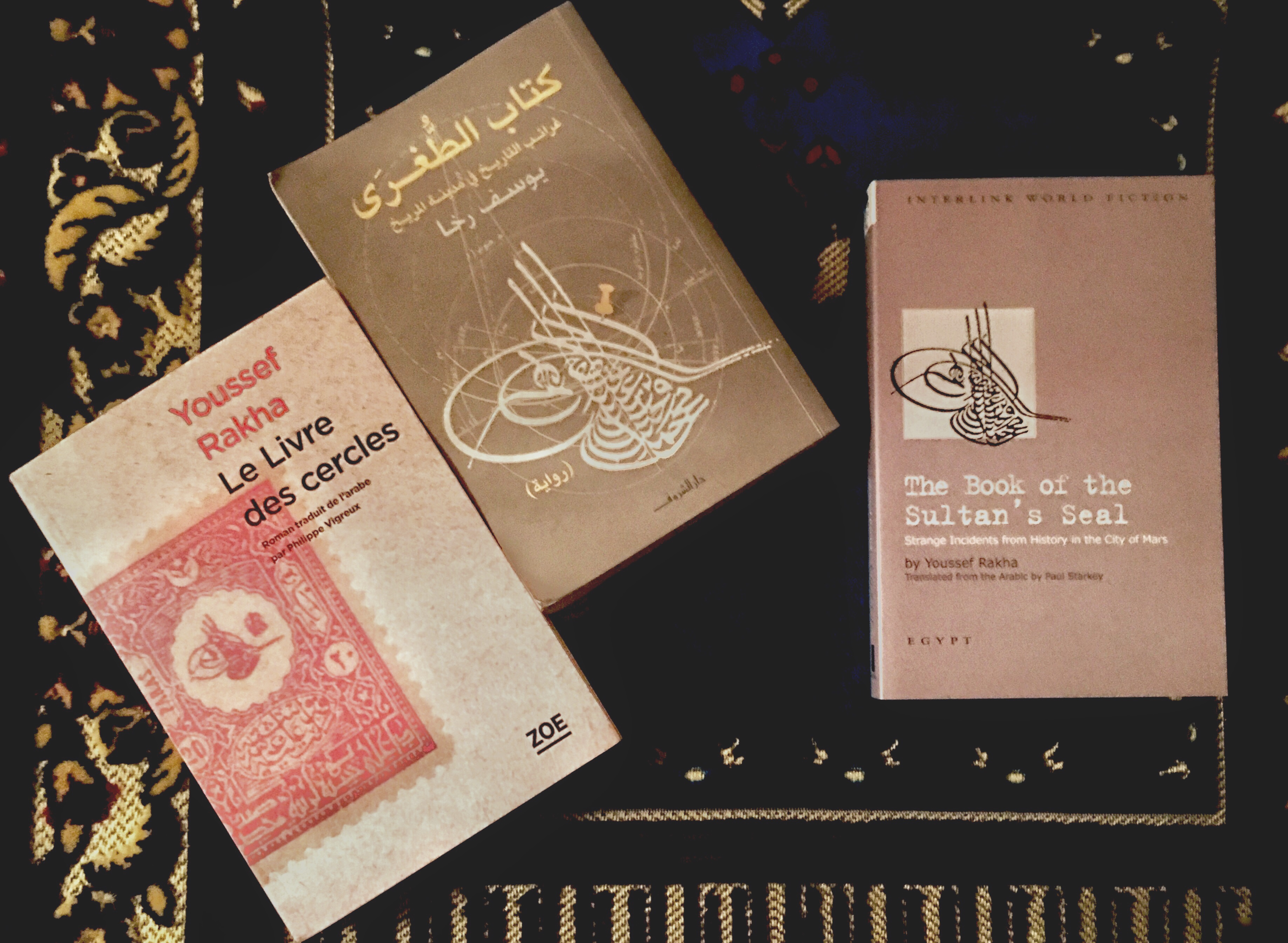 Youssef Rakha's "The Book of the Sultan's Seal" in three languages